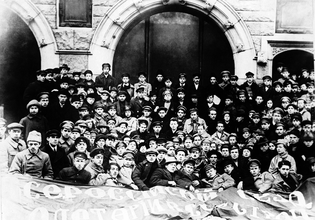 “Delegates to the 1st congress of the Komsomol”. October 1918. A group of delegates to the 1st All-Russia congress of unions of working and country youth which formed a public and political group which later was called the All-Union Lenin Communist Union of the Youth, or the Komsomol. In September 1991 the union dissolved itself.